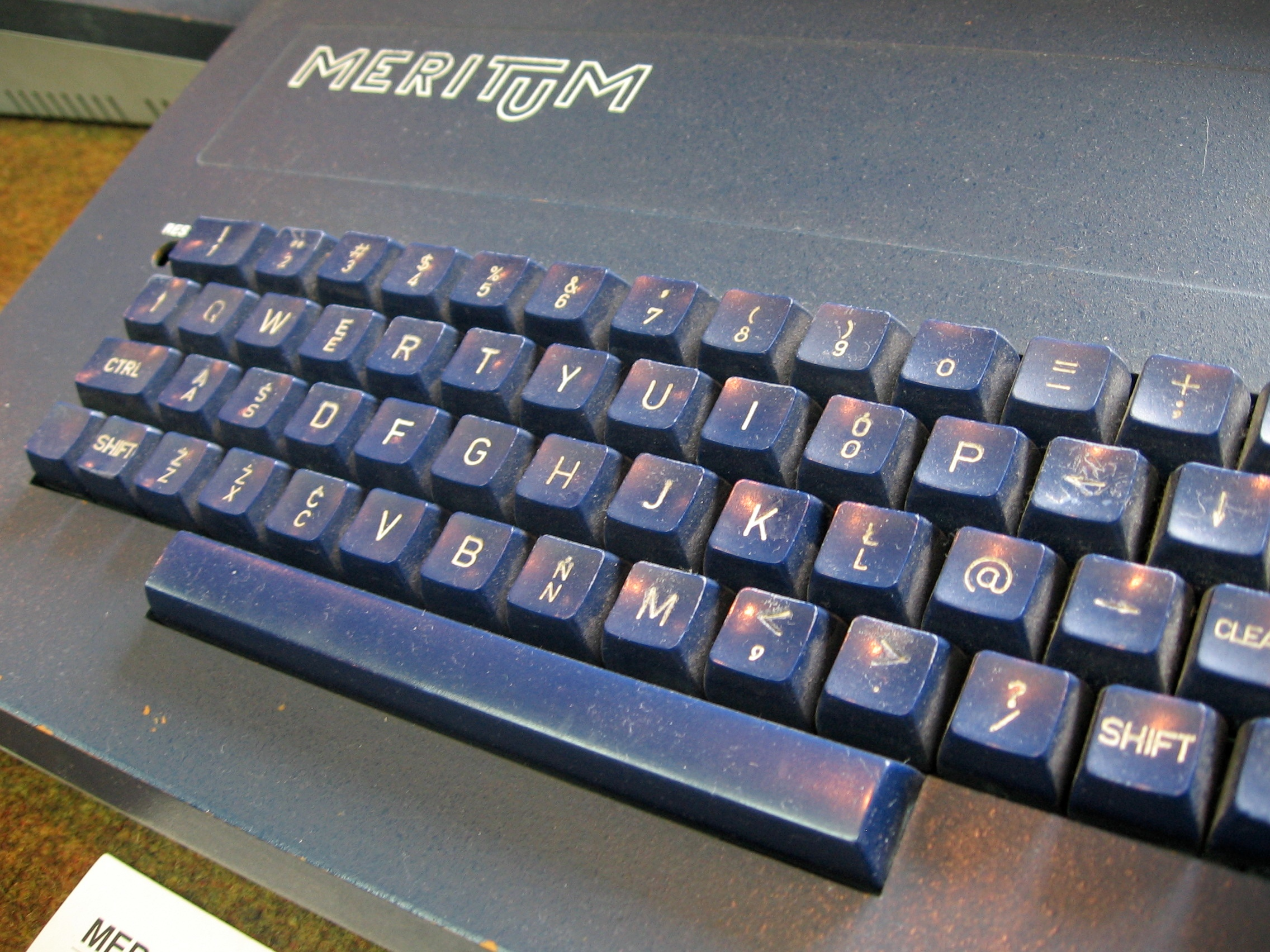 A Polish microcomputer loosely based on TRS 80 Model II.